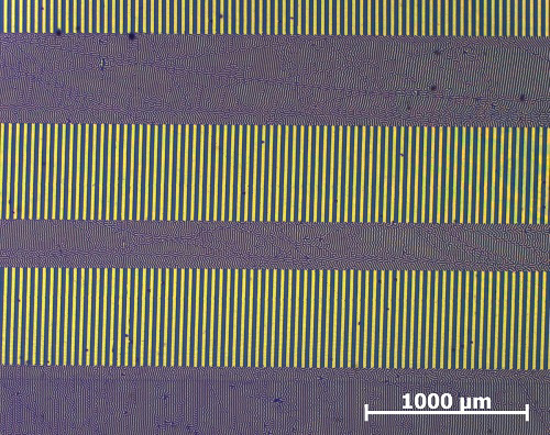 Visualization of the magnetic field of 1 kHz audio tone recorded on a stereo cassette (recorded with CMOS-MagView).